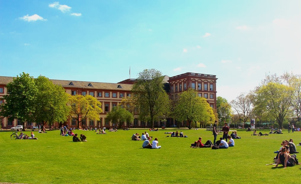 Shows one of the yards at the University of Mannheim.